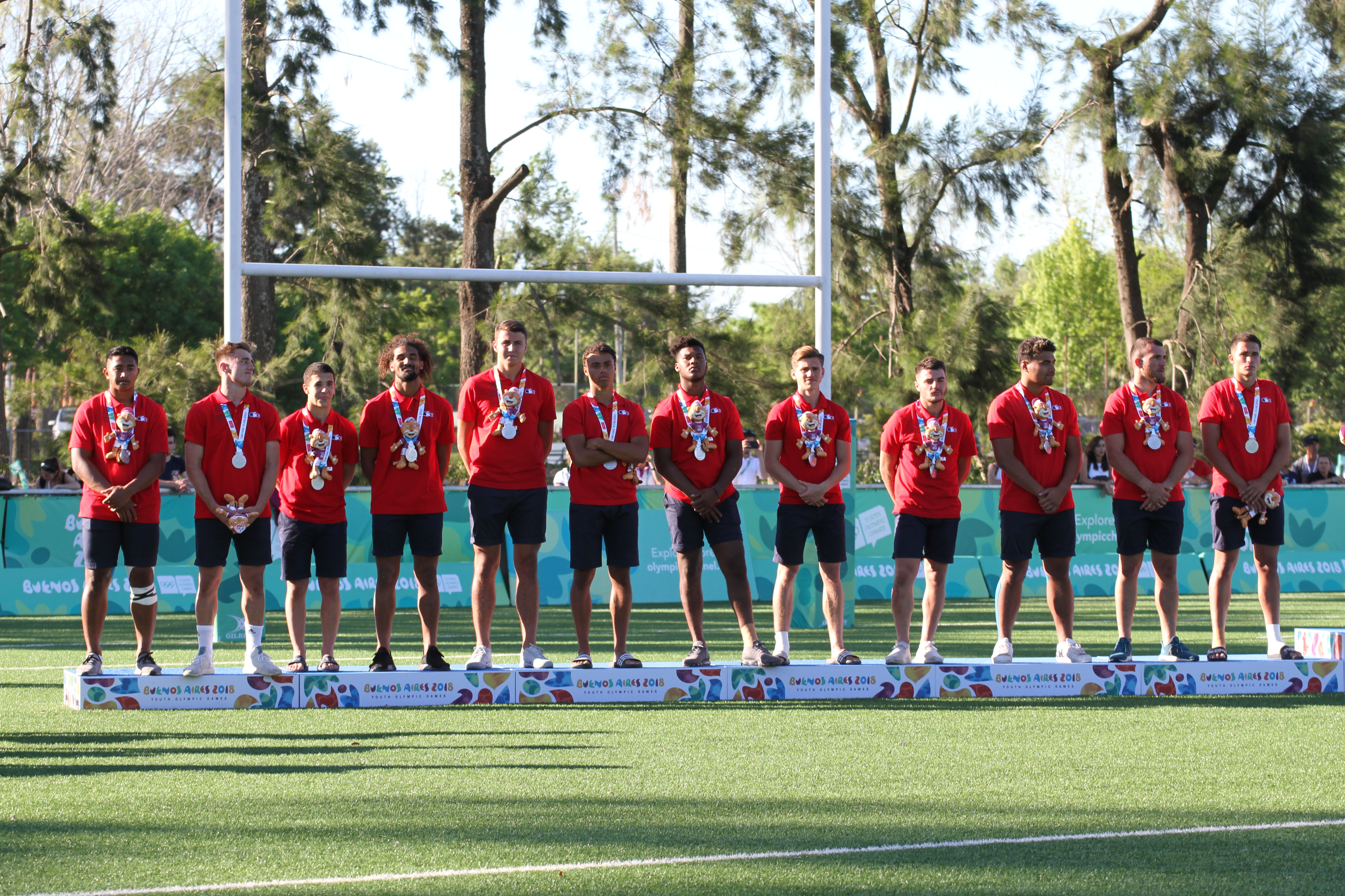 Victory ceremony of the boys rugby seven tournament of the 2018 Summer Youth Olympics.